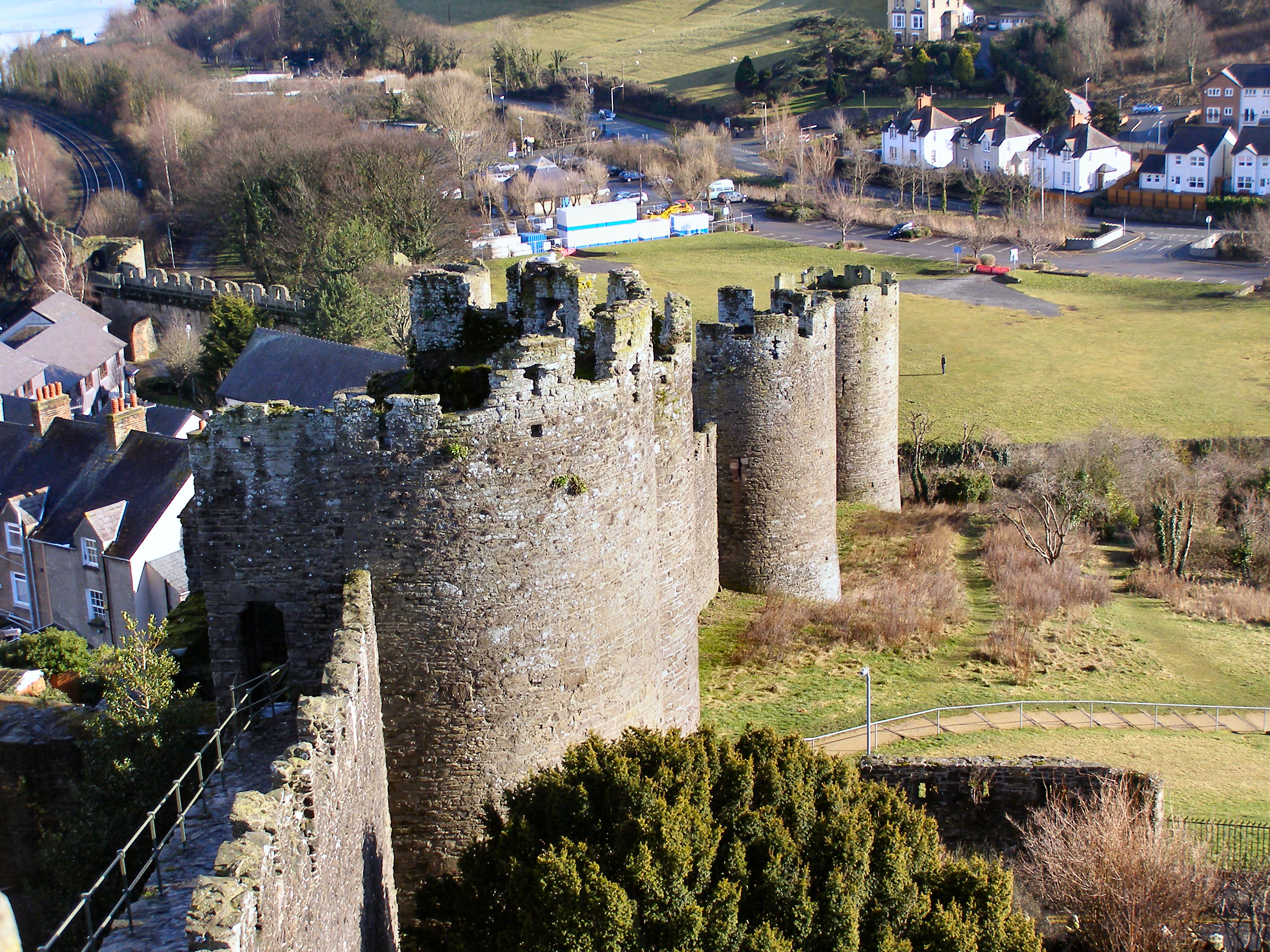 Conwy Town Walls The south western section.